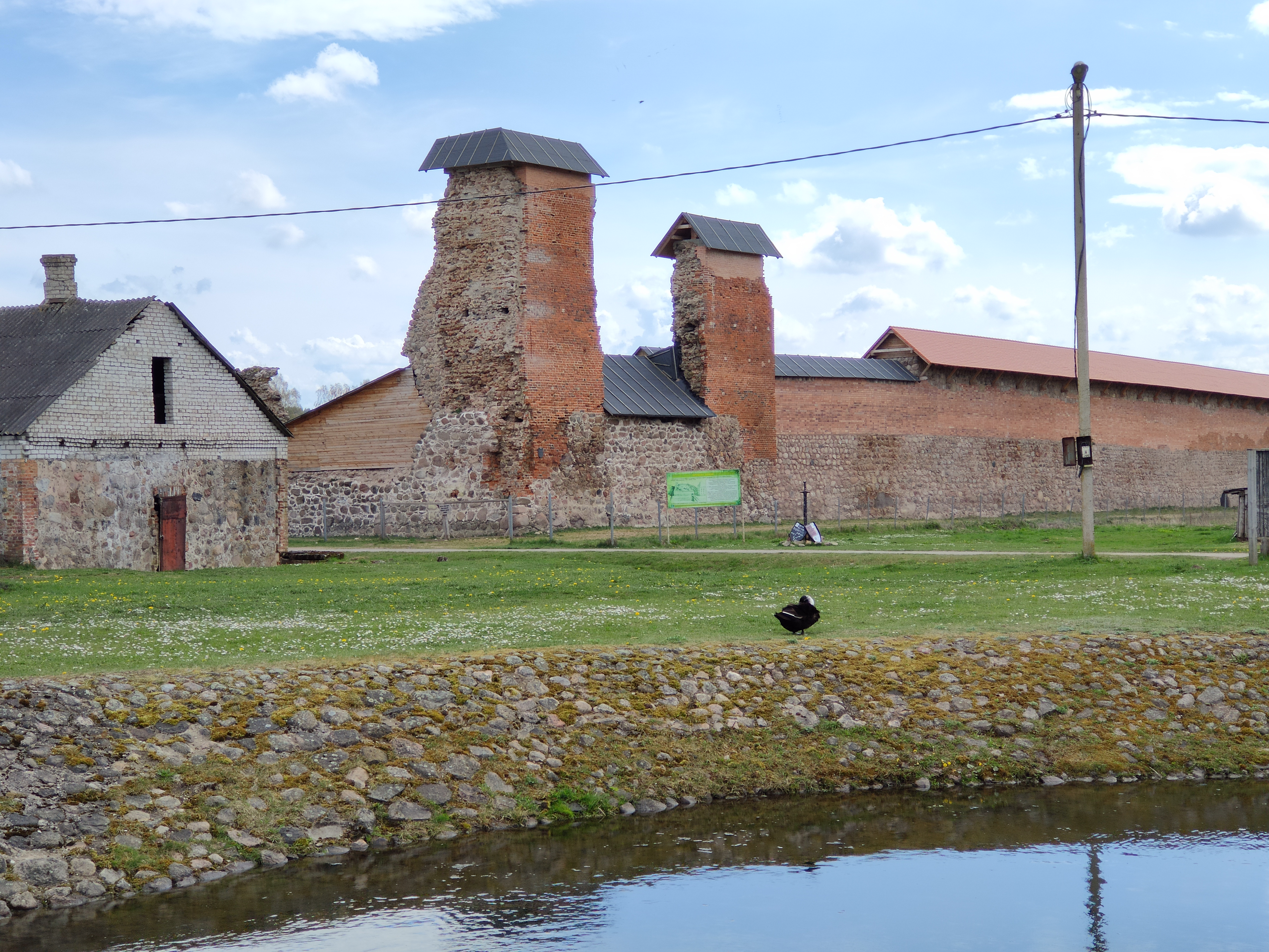 Kreva Castle